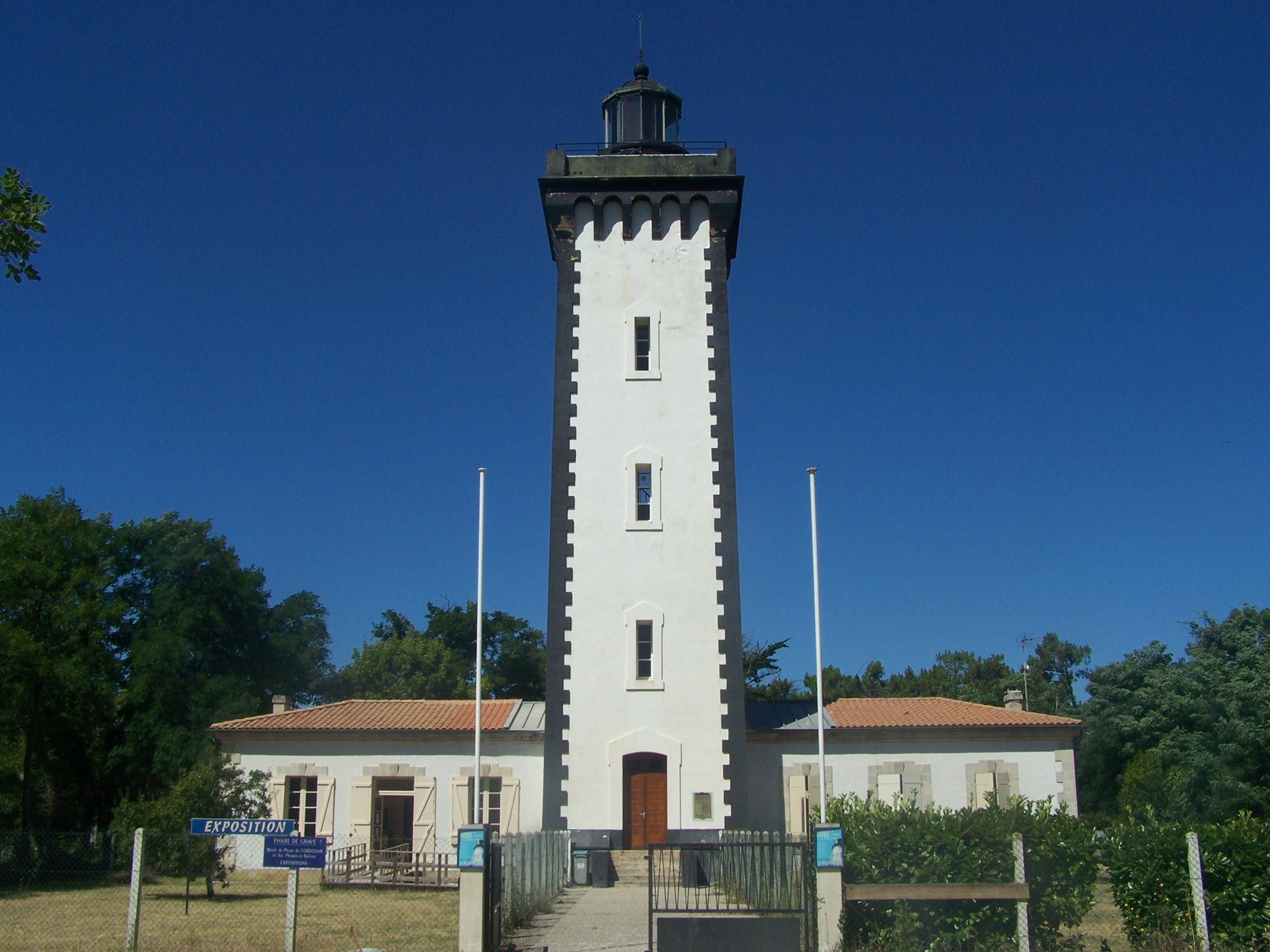 Phare de Grave lighthouse, situated at the Pointe de Grave peninsula, in the Gironde estuary.